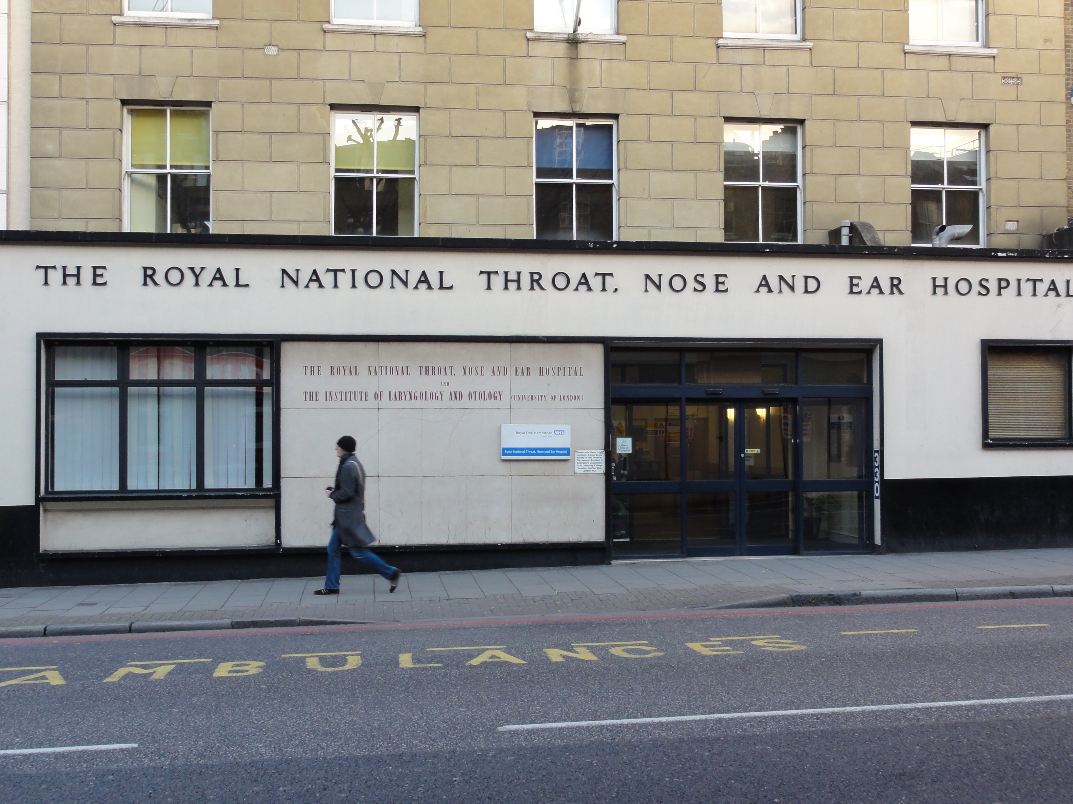 The entrance to what used to be the Royal National Throat, Nose and Ear Hospital in Gray's Inn Road, London